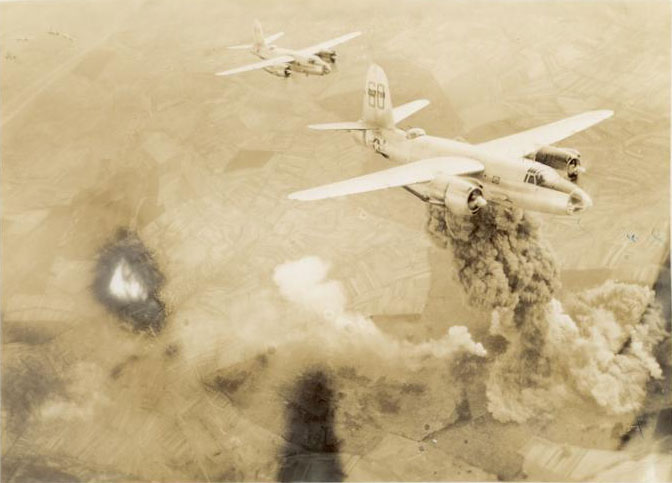 A plane of the 17th Bombardment Group (432nd Bombardment Squadron) flies surrounded by flak explosions somewhere over Algeria during World War II.